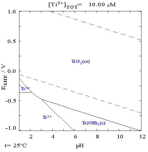 I drew it with Medusa